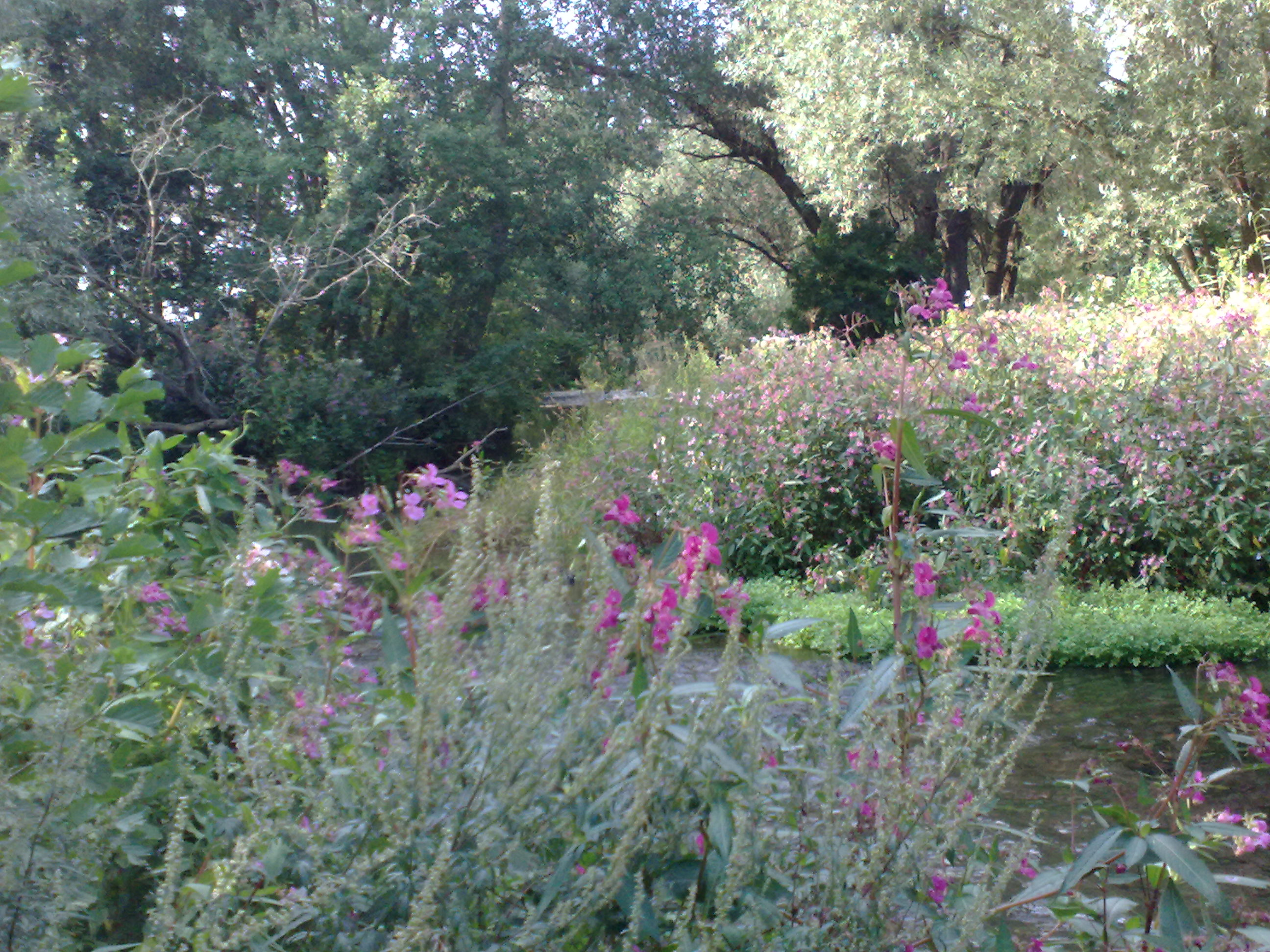 River Innerste in the Söderhorn Forest. Nature reserve Mittleres Innerstetal mit Kanstein, municipality of Heere, Lower Saxony, Germany.